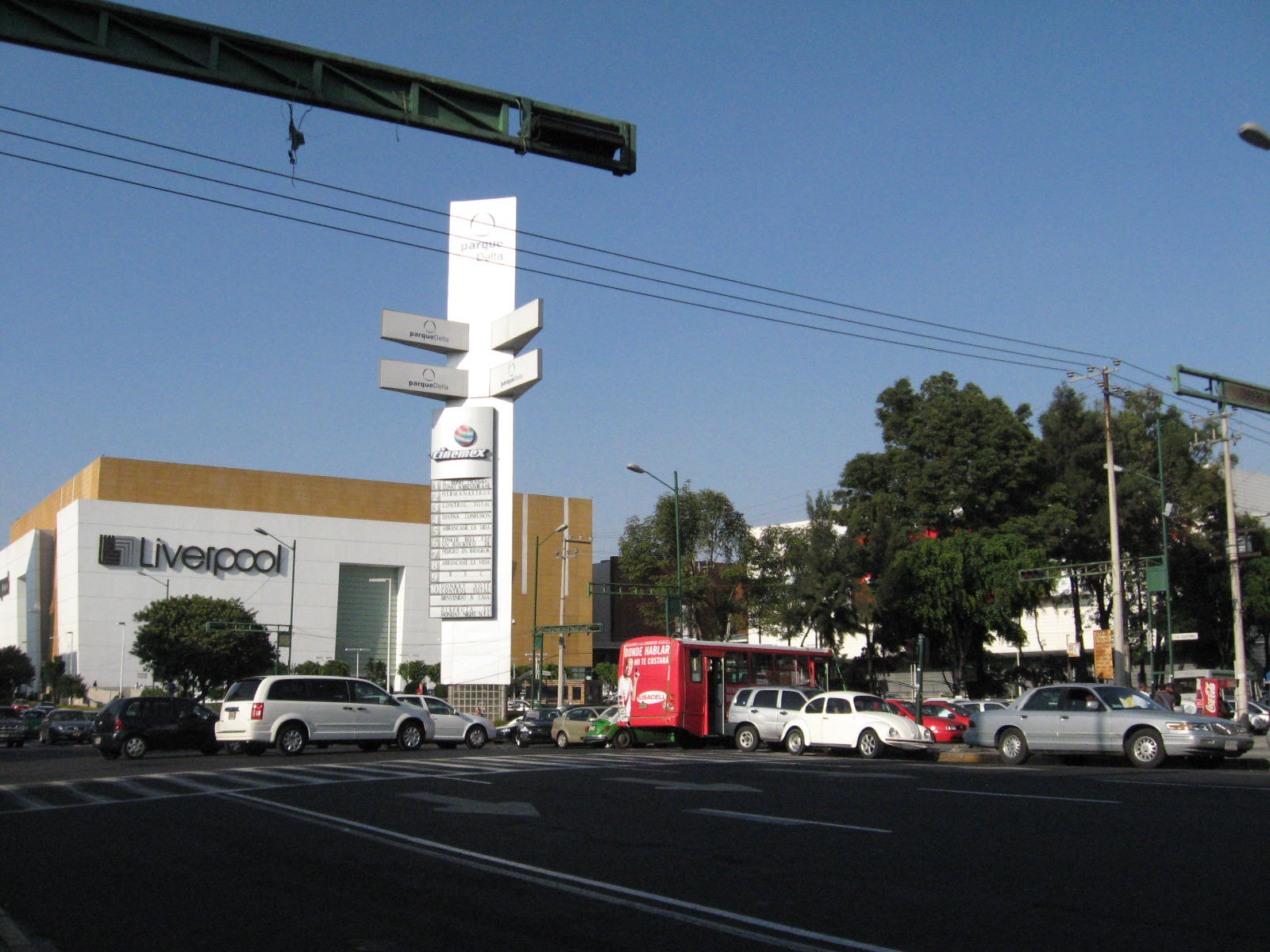 Parque Delta Mall near Metro Station Centro Medico on Cuauhtemoc Avenue in Mexico City